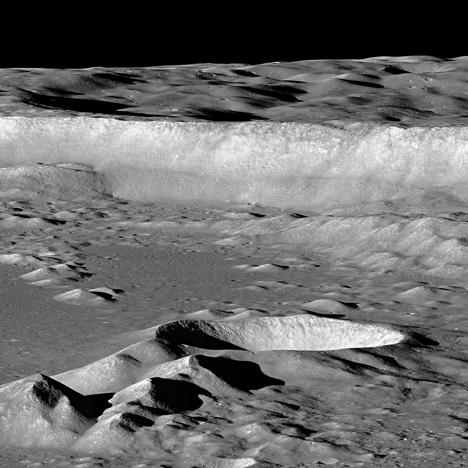 Floor and eastern wall of Antoniadi crater, image width along wall is 40 km, M1146021973LR [NASA/GSFC/Arizona State University].